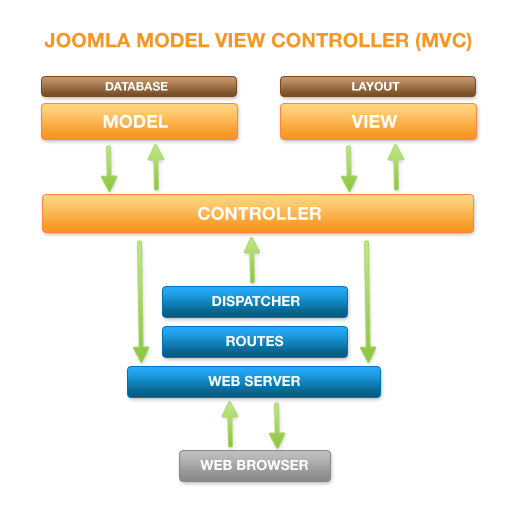 mvc view of Joomla! 1.5 and beyond